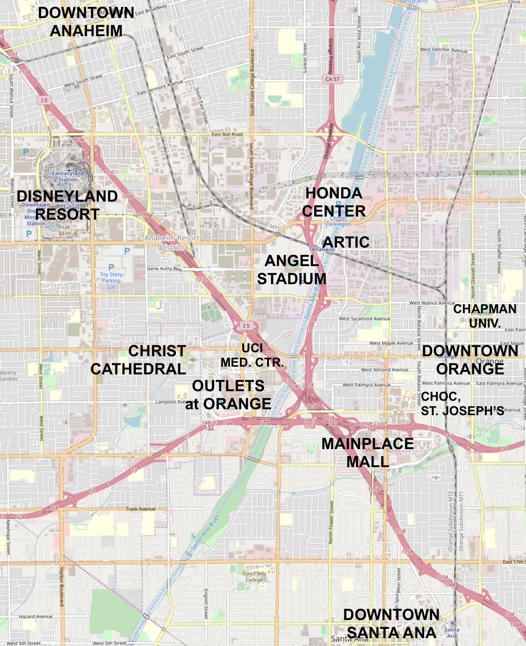 Map of Anaheim–Santa Ana edge city